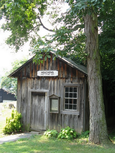 Houchens First Store in Houchens Park, Glasgow KY.